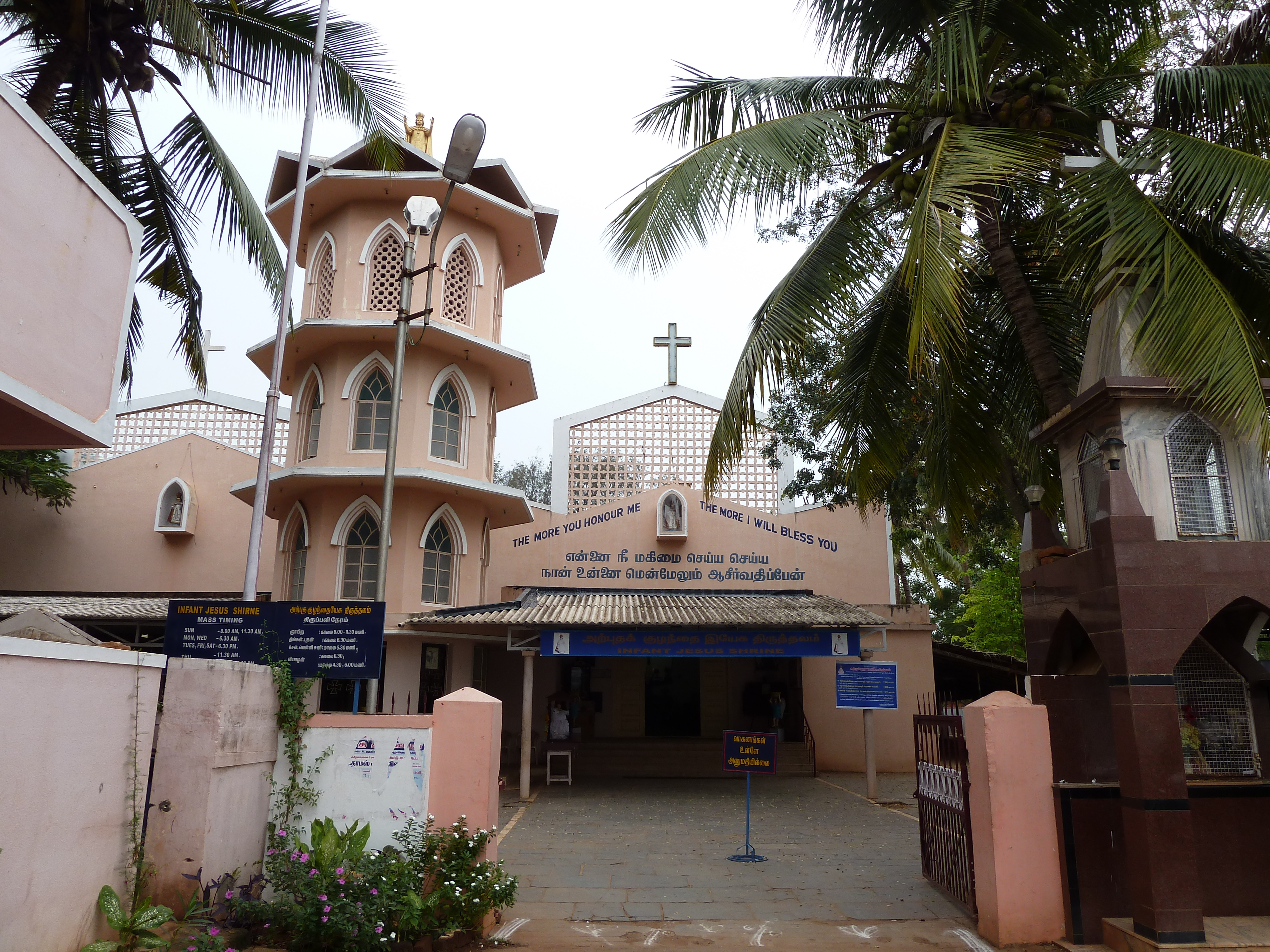 Infant Jesus Church, Kovaipudur, Coimbatore, India